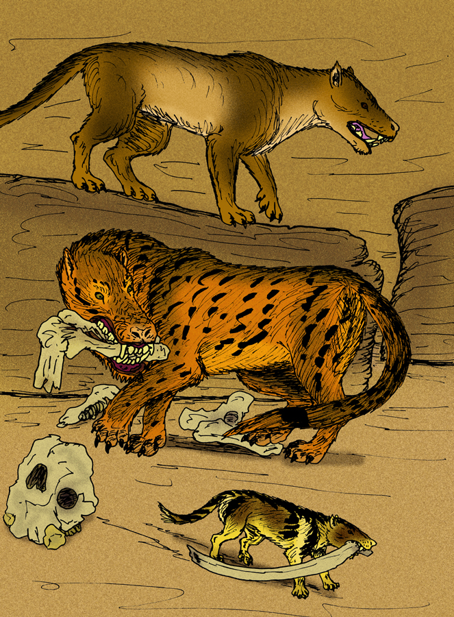 Comparison of various Early to Middle Miocene hyaenodontids, including the hyainailurids Hyainailurus sp. (top), and Megistotherium osteothlastes (center), and the hyaenodontid Dissopsalis pyroclasticus, Early Miocene Kenya